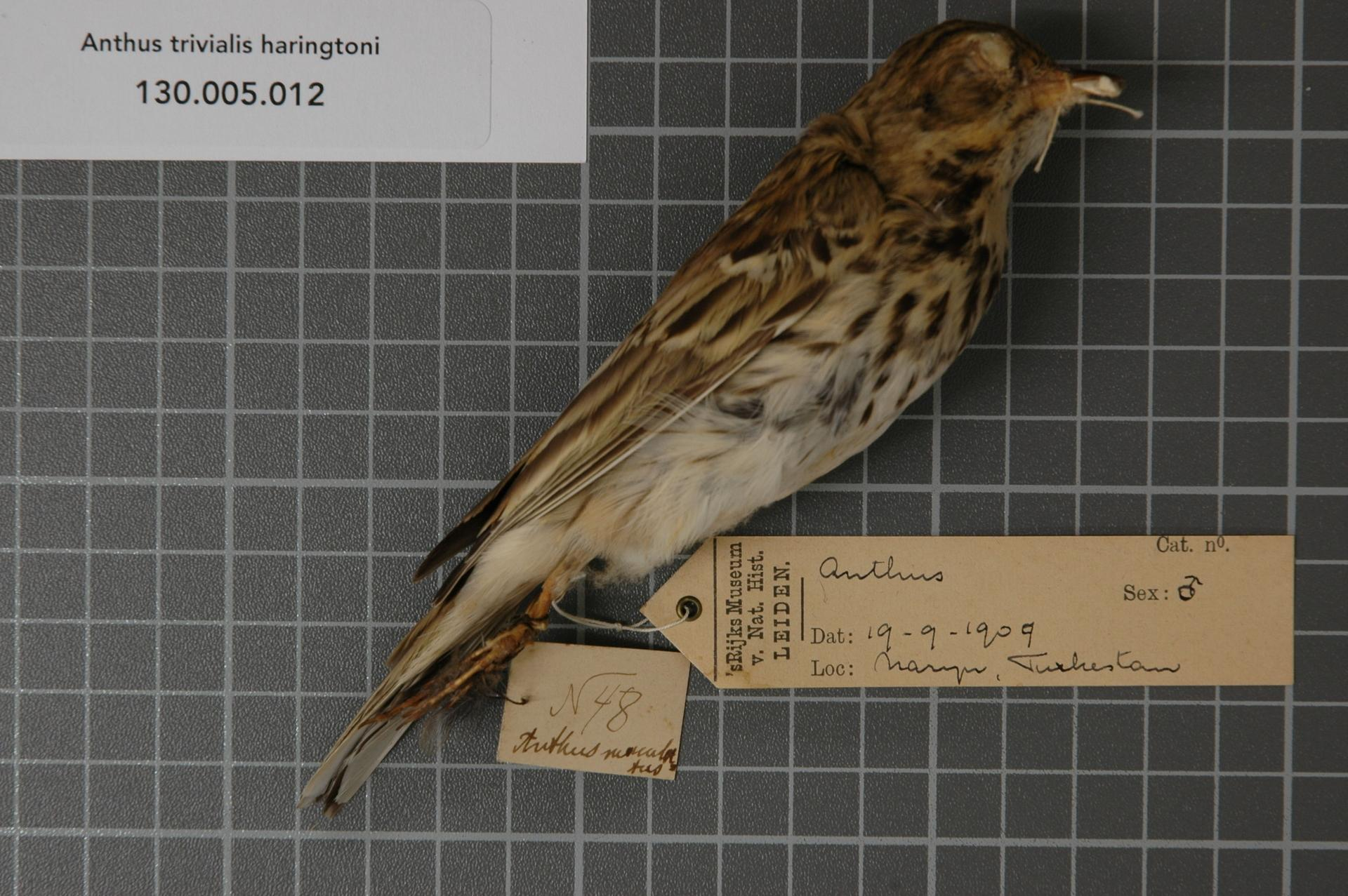 Anthus trivialis haringtoni Witherby, 1917